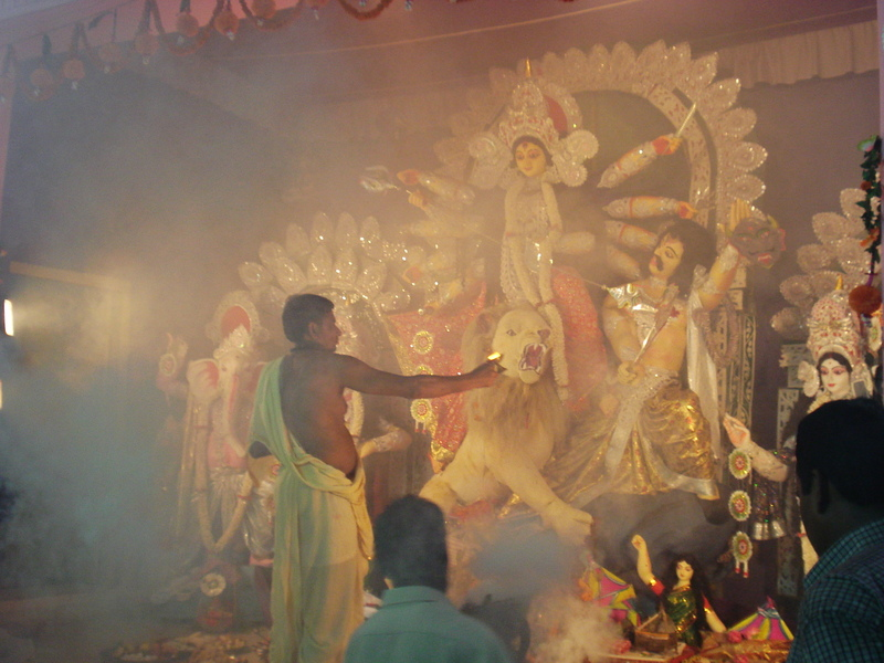 Arati at the rakshitbARi puja in Giridih, Jharkhand (Earlier in Bihar). The priest is performing a ritual dance with the lamp.